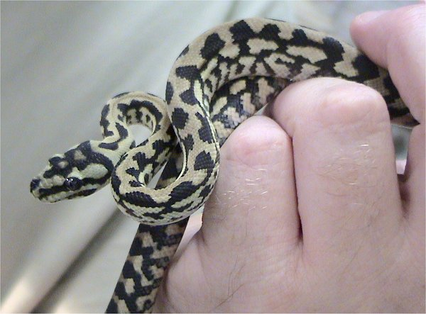 Carpet Python, Morelia spilota